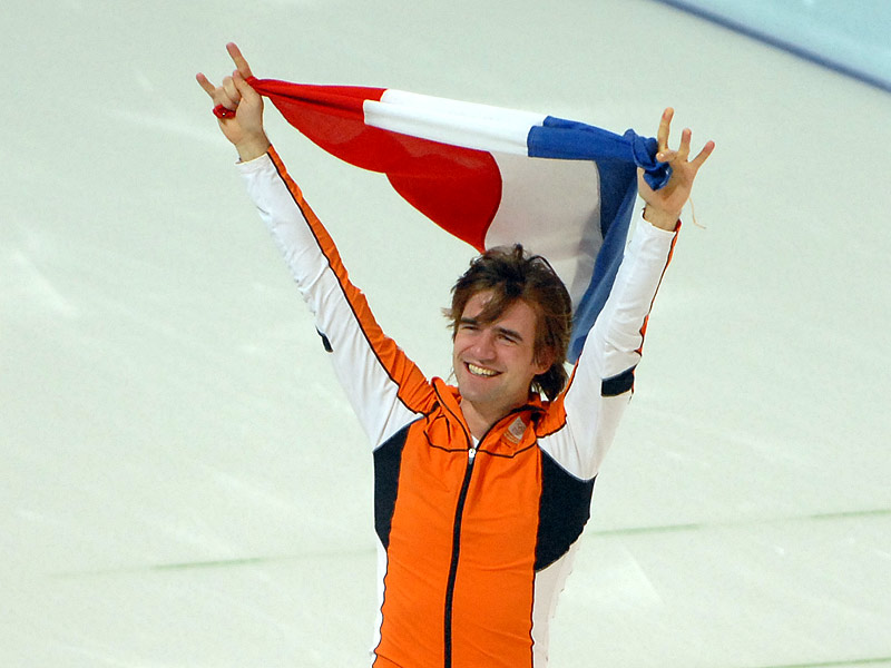 Mark Tuitert celebrating his Olympic 1500 m title in the Vancouver 2010 Olympics.